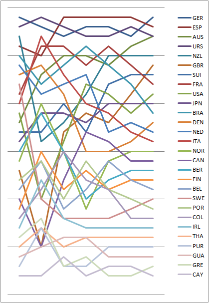 1976 470 Daily standings during the Olympic sailing event